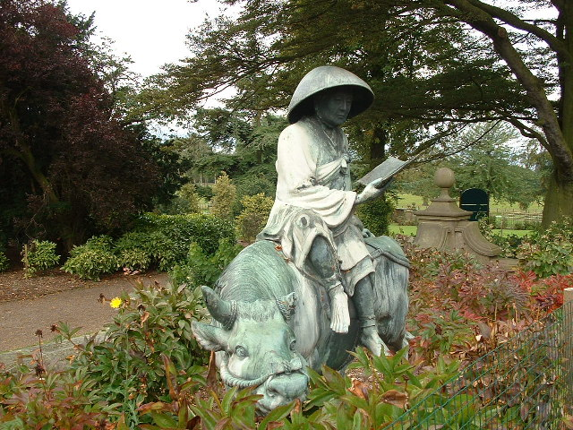 Statue in Lotherton Hall Gardens — West Yorkshire, England. The Edwardian gardens surround the Hall on three sides. They were created by Mrs Laura Gwendolen Gascoigne in the Gertrude Jekyll style, divided into several parts, each with its own distinctive character from highly formal to semi wild.